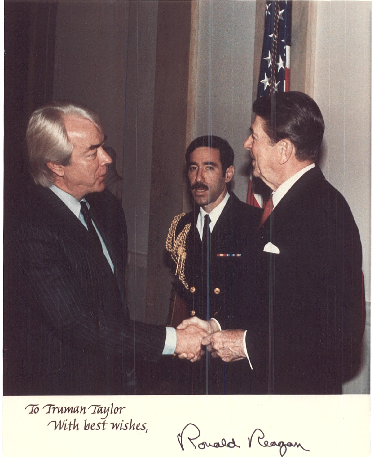 Newscaster and television producer Truman Taylor and President Ronald Reagan at the White House